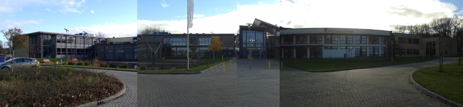 The Dominicus College, a high school on the Energieweg, Nijmegen. Manually created panoramic photo.